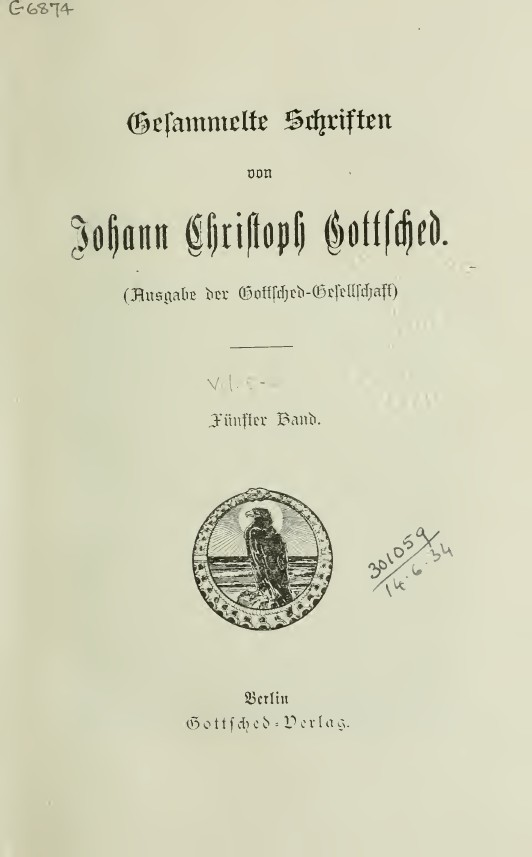 Title page